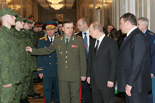 DEFENCE MINISTRY, MOSCOW. Inspecting models of the new Russian Armed Forces uniforms. With Defence Minister Anatoly Serdyukov (right) and Chief of Rear Services and Deputy Defence Minister Vladimir Isakov.